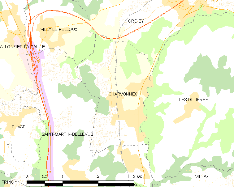 Map of French municipality Charvonnex